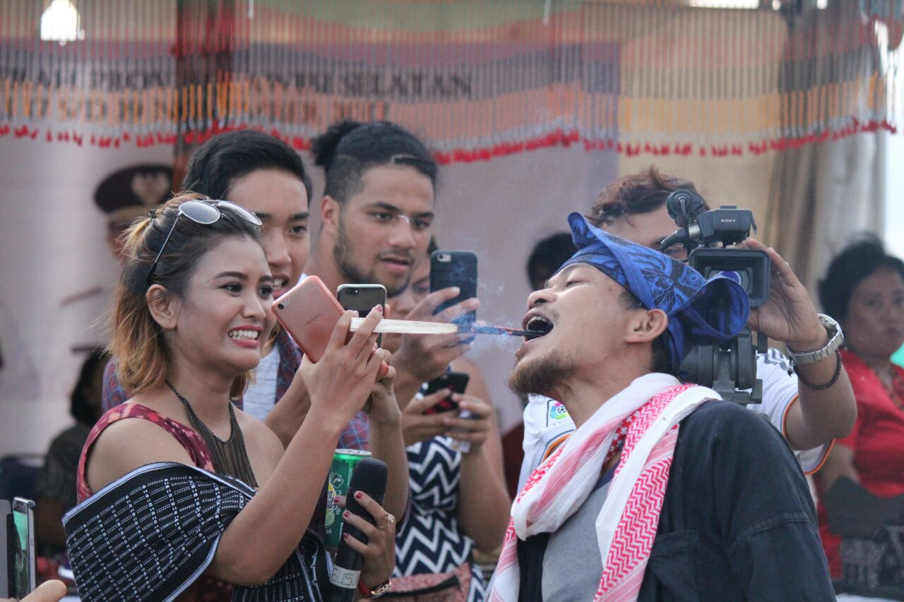 Debus Banten performance at Tourisme Banten Week, Bali, November 18, 2017.